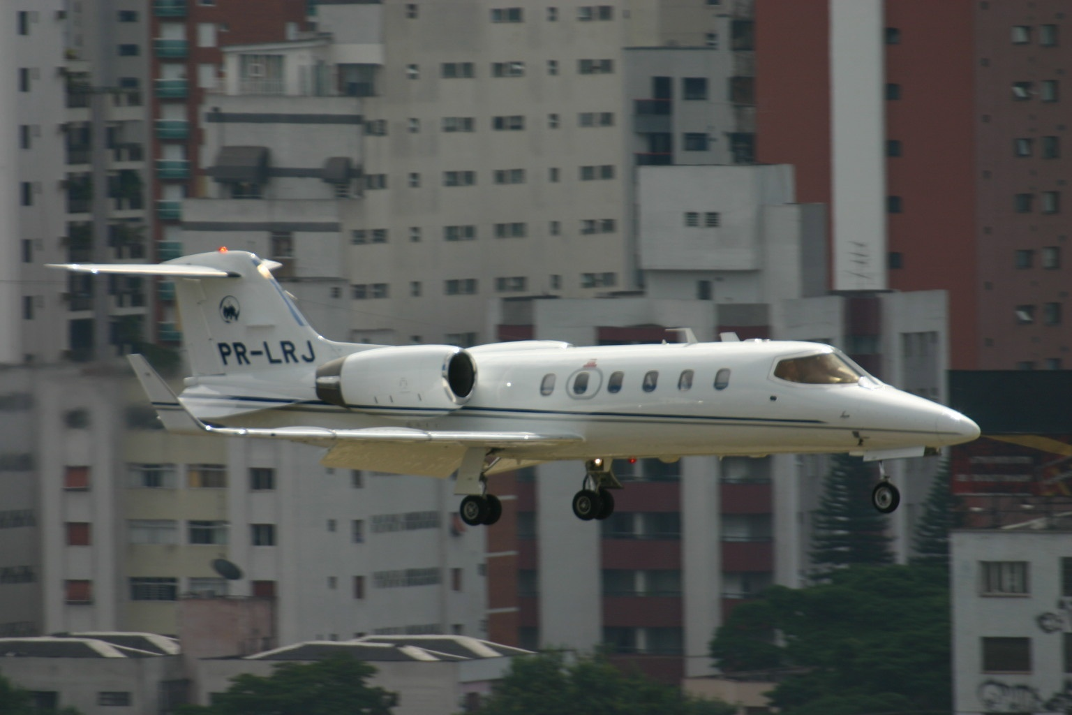 At Sao Paulo Congonhas